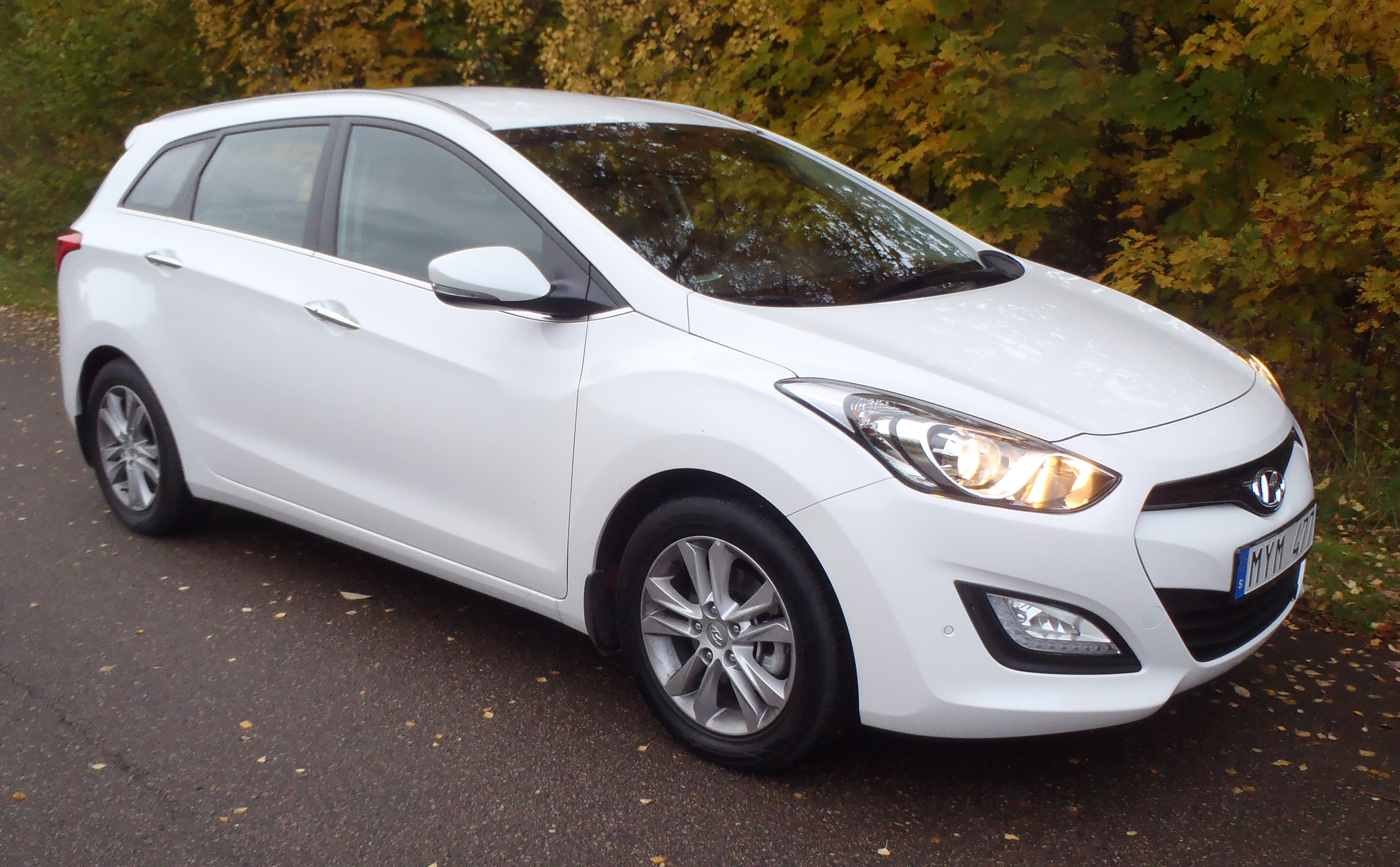 The 2012 Hyundai i30 Wagon/cw